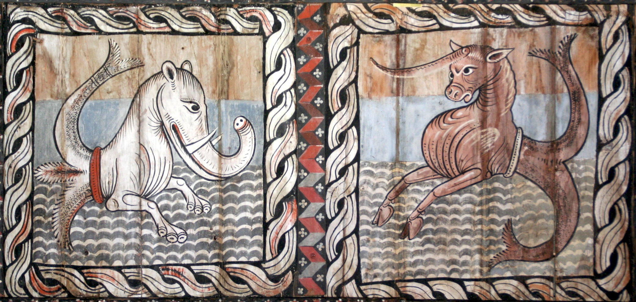 Lateral paintings A7 & A8 Decke (Ausschnitt)